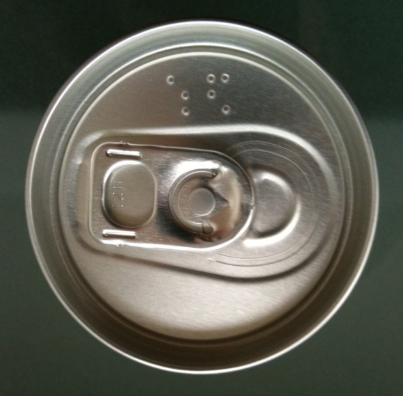 Photo taken by Kurt Seifried , public domain, photos is of the top of a can of Asahi Super Dry with Japanese Braille on top. The Braille literally reads "sake" (⠱⠫, さけ, 酒), indicating the can contains alcohol. Sometimes the word "osake" is similarly used (⠊⠱⠫, おさけ, お酒)).